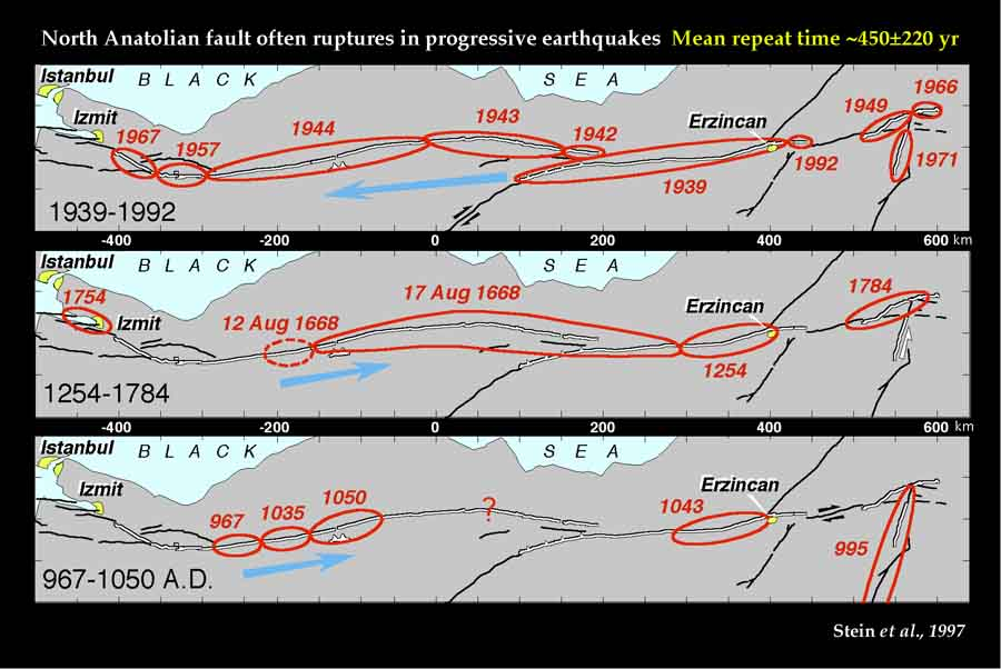 Maps showing that the North Anatolian fault tends to rupture in progressive adjacent eart